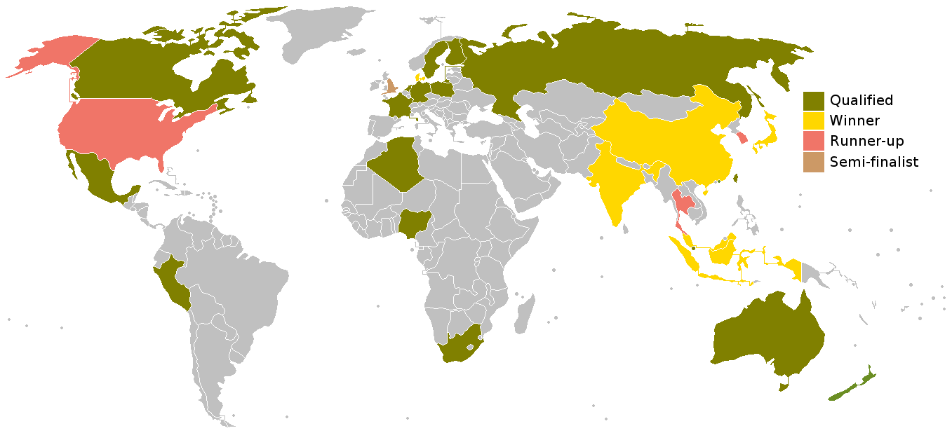 Country that have qualified for Thomas Cup